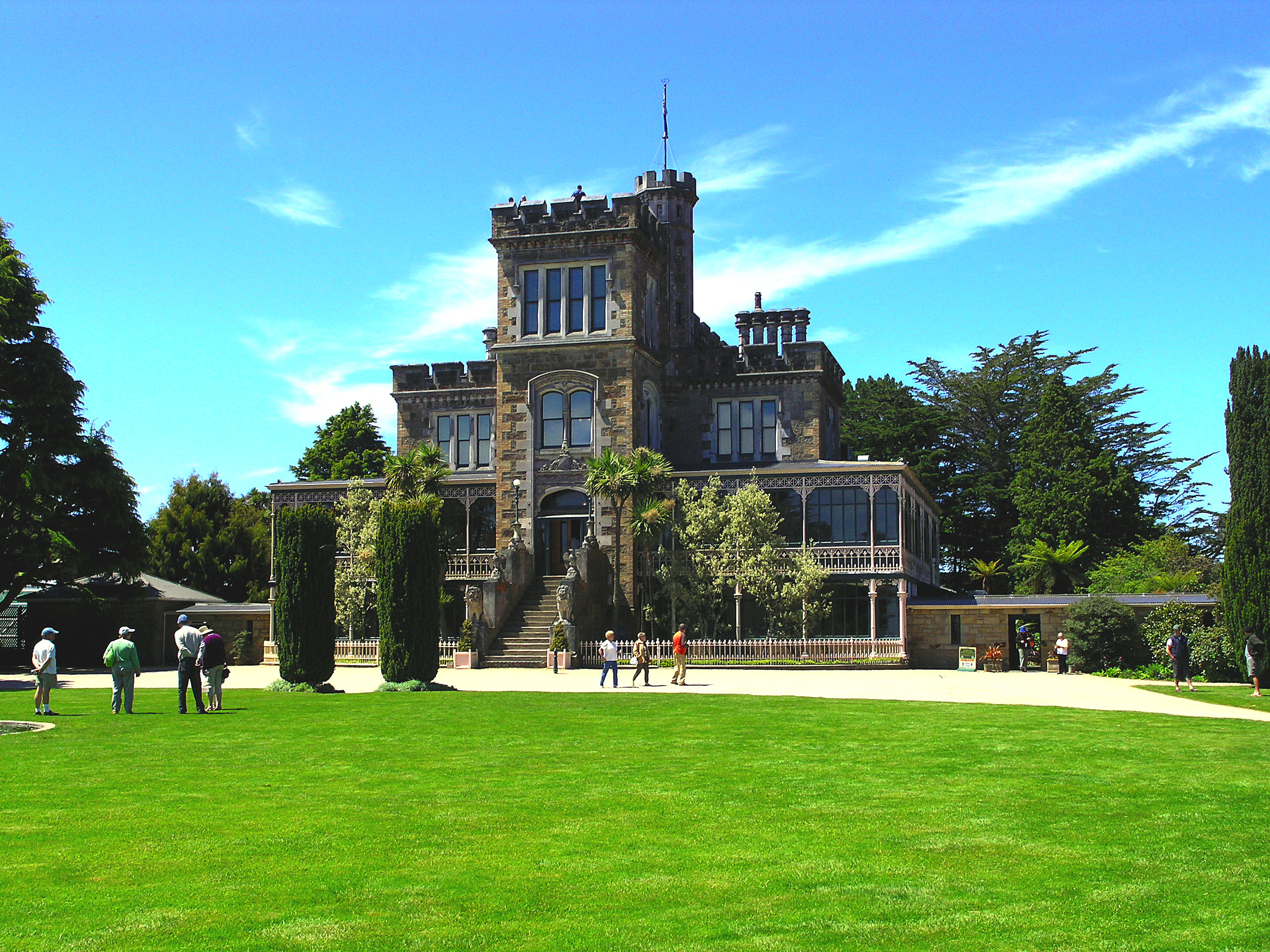 Larnach Castle, Dunedin, New Zealand